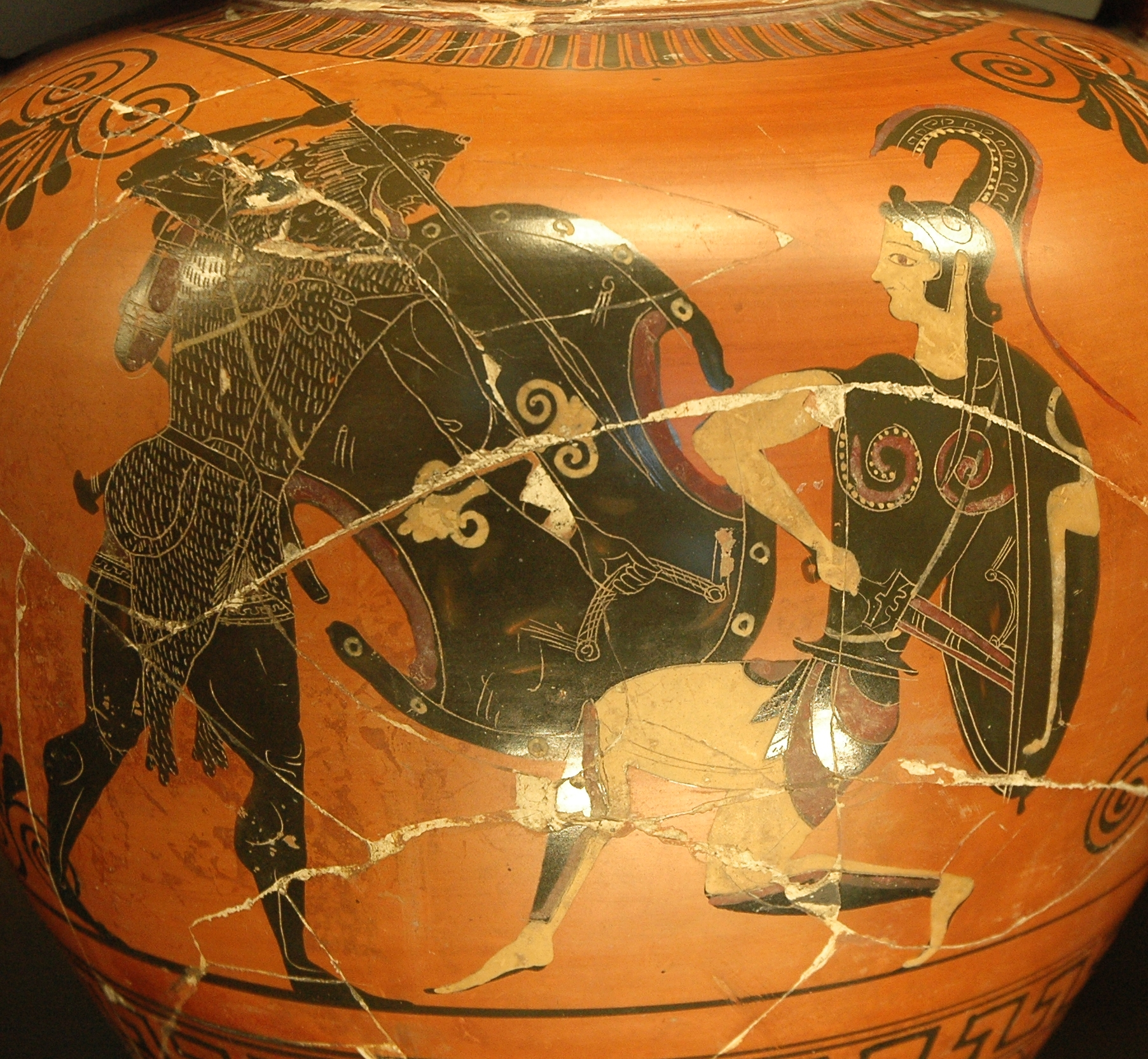 Herakles fighting against the Amazons, detail of an Attic black-figure amphora, ca. 530 BC–520 BC.